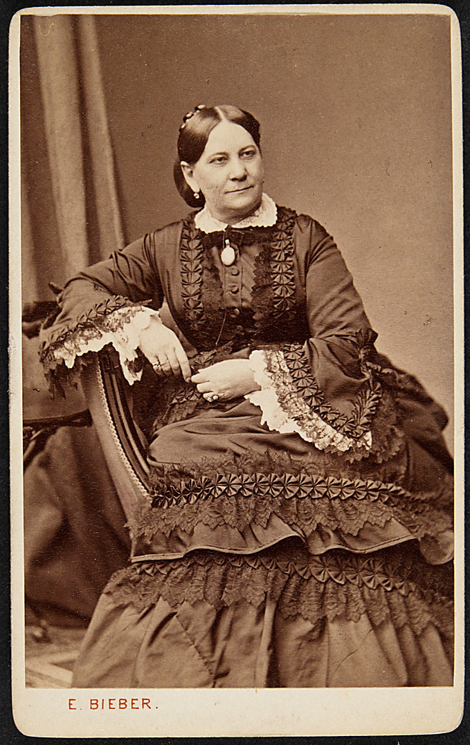 Caesarine Kupfer-Gomansky, German actress